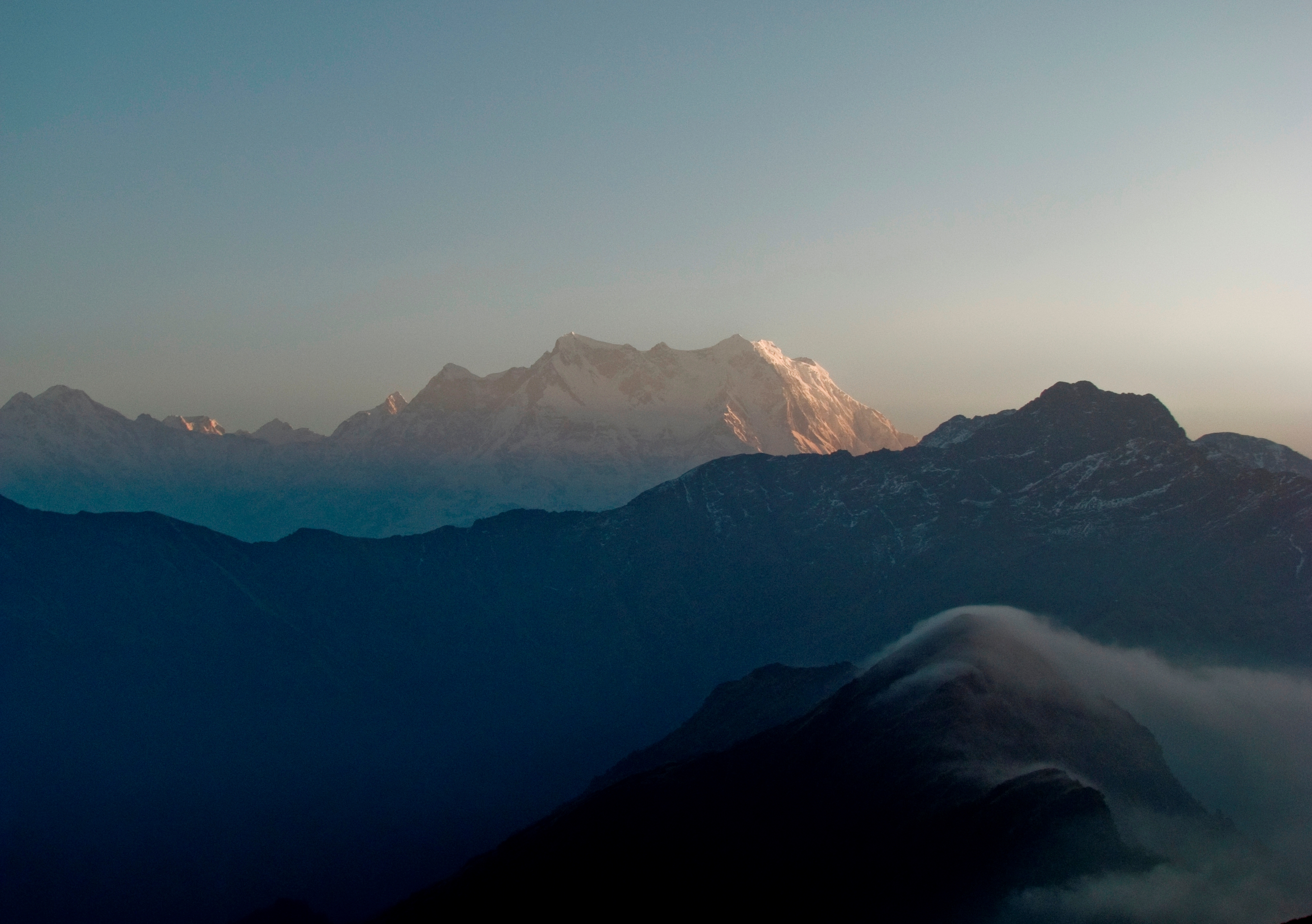 Chaukhamba peak, Garhwal Himalayas, Uttarakhand.